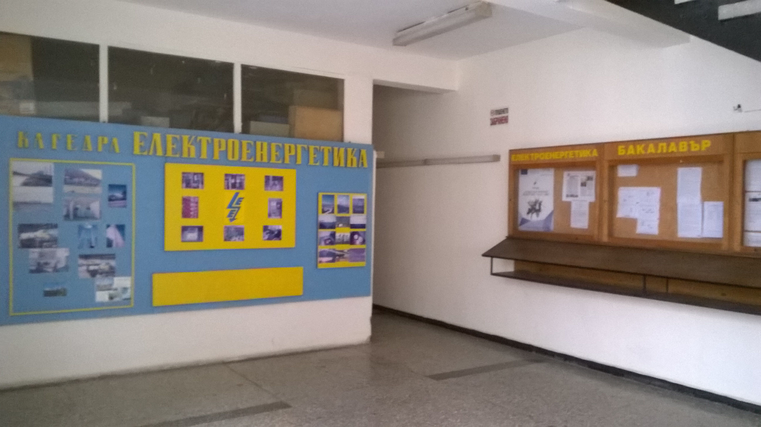 Picture taken in the entrance of the Department Energetics, Technical University of Varna